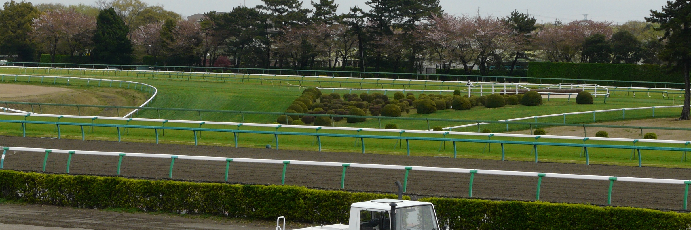 Nakayama-Racecourse07